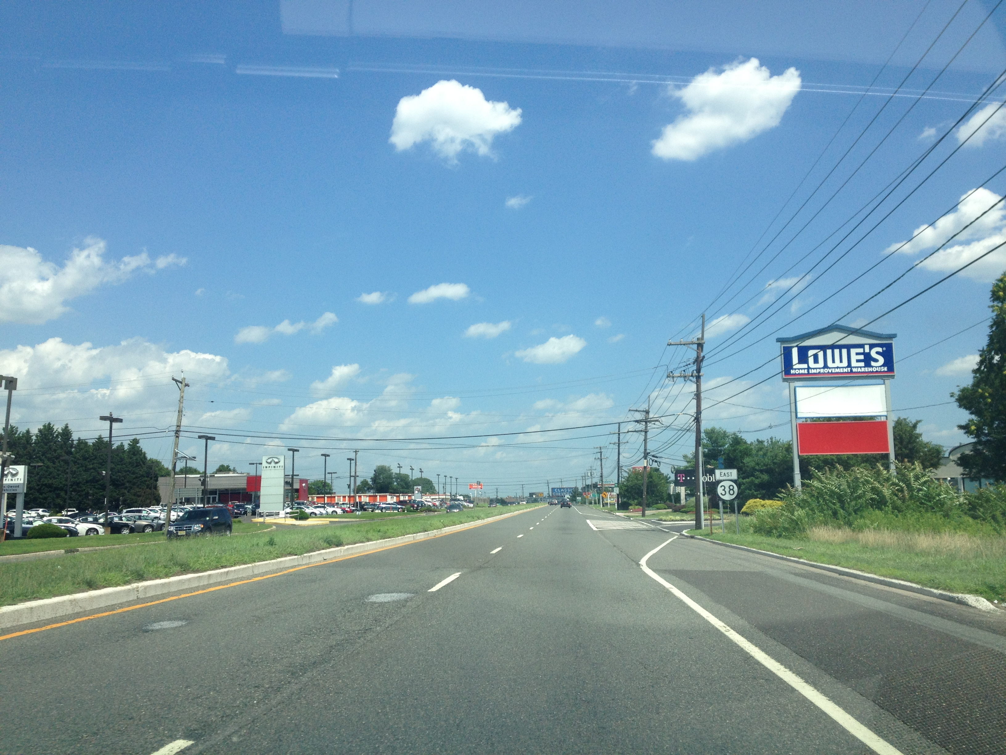 Eastbound New Jersey Route 38 past the interchange with New Jersey Route 73 in Maple Shade, New Jersey